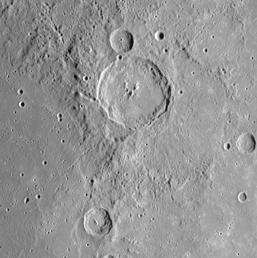 Couperin crater on Mercury. MESSENGER Wide Angle Camera image. North is up. Emission Angle: 24.4 Incidence Angle: 68.5 Latitude: 28.8 Longitude: 207.7 Phase Angle: 92.9